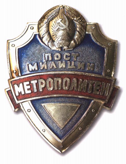 Breast Badge "Police post of metropolitan" (БССР)